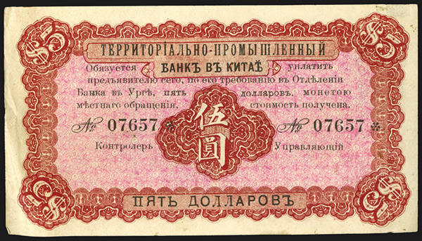 A banknote issued by the Bank of Territorial Development, Urga Branch.